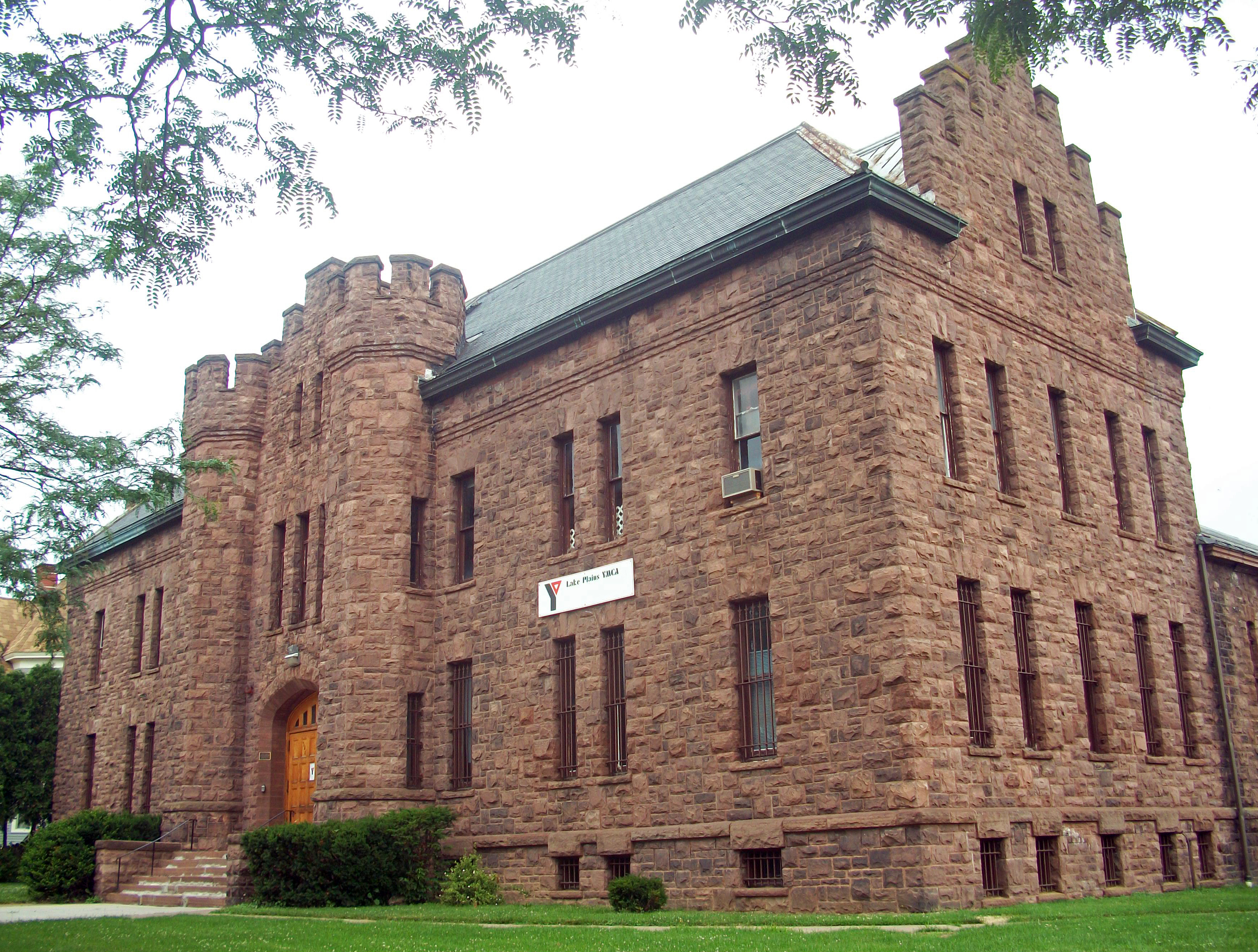 Former Medina, NY, armory, now Lake Plains YMCA